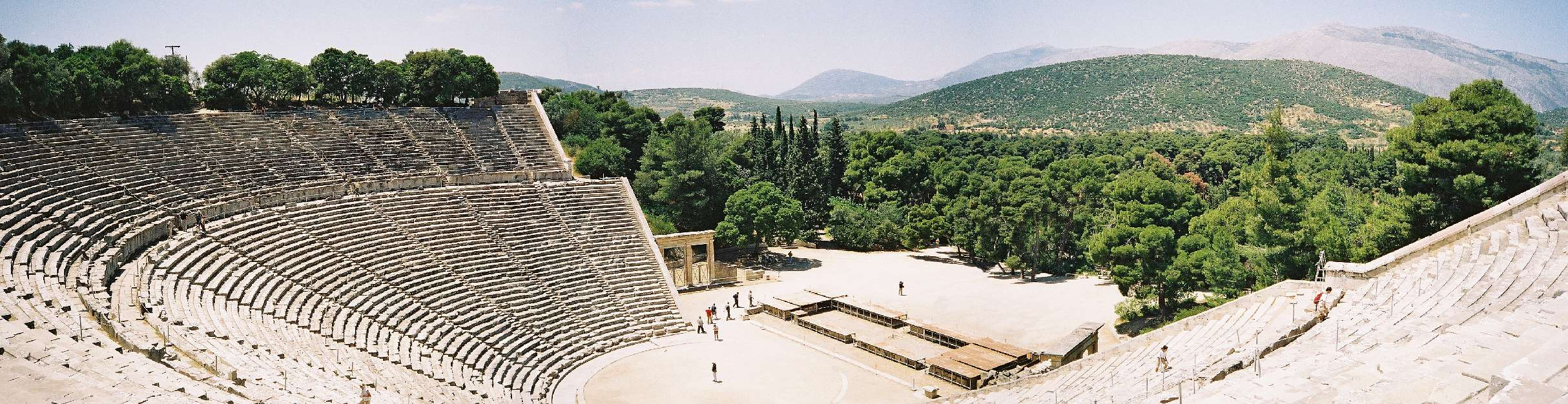 Epidaurus (Epidauros), Greece: Theatre